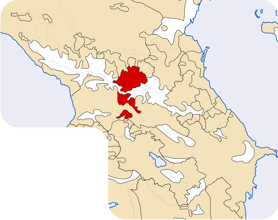 Location map of the Ossetians.